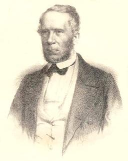 Eduard August von Regel (sometimes Edward von Regel or Édouard von Regel; born 13 Aug, 1815 in Gotha, died April 15, 1892 in St. Petersburg) was a German horticulturalist and botanists. Director of the Russian Imperial Botanical Garden St. Petersburg. His official botanical author abbreviation is "REGEL".